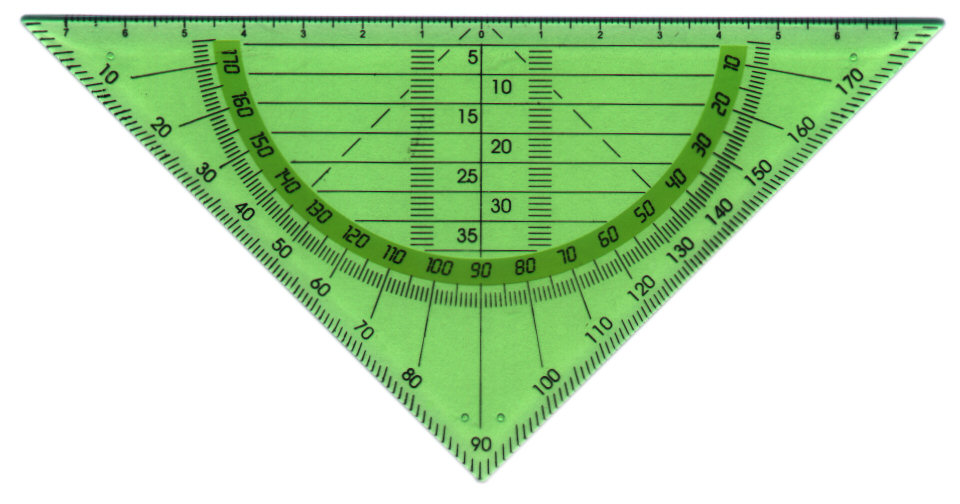 Square (Tool) with protractor